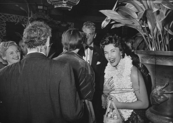 Photograph of actress Linda Christian wearing a sarong and Hawaiian lei while talking with others at the West Hollywood club Ciros (now known as the Comedy Store), in 1954.